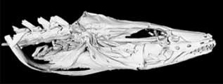 Cropped from file:Comparison of CT scans of heads of Mastacembelus species - 177-734-1-PB.jpeg, which has the following description: These 3D scans were generated using high-resolution x-ray computed tomography. Each image is the result of over 2000 individual x-rays of the whole animal, which are then compiled to produce 3D images displaying only the bone structure underneath the skin. The skulls displayed here are different species of spiny eels that are found only in Lake Tanganyika, East Africa, where 14 species have diversified in terms of genetics, ecology and morphology. This comparison demonstrates the striking diversity in skull structure and function of four of Lake Tanganyika's spiny eels. These morphological differences are correlated to differences in feeding strategy, and, like Darwin's famous finches, are indicative of an adaptive radiation, where species rapidly evolve from a common ancestor through adaption to different environments. (Clockwise from top left: Mastacembelus albomaculatus, M. moorii, M. platysoma, M. apectoralis).